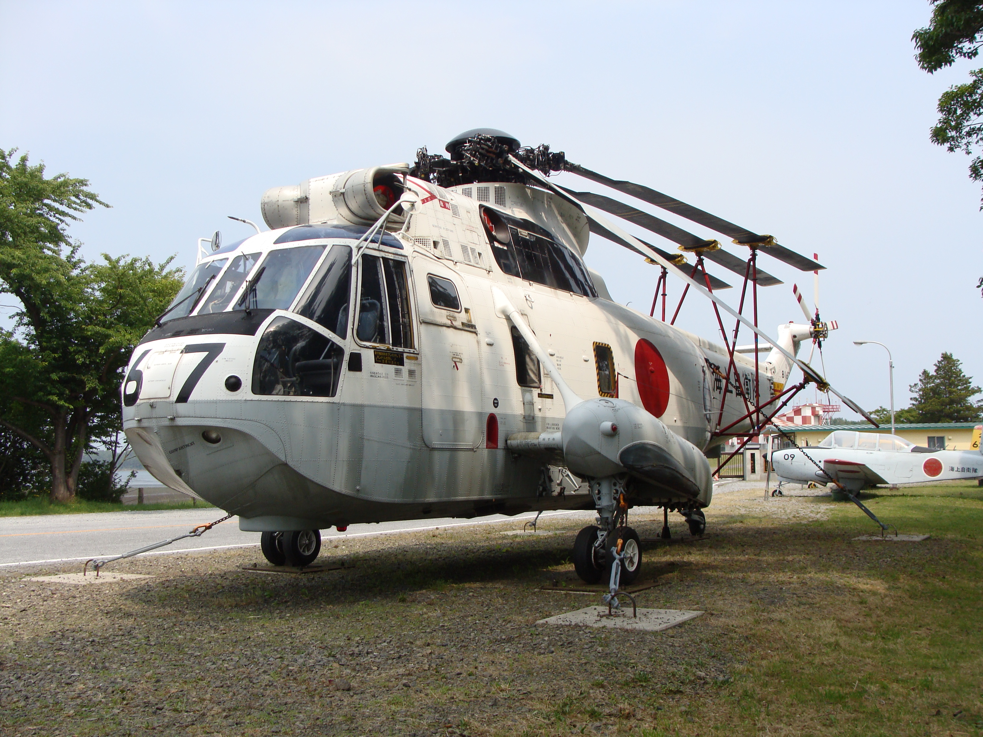 JMSDF OMINATO AIR BASE HSS-2B No.8167 Helicopters